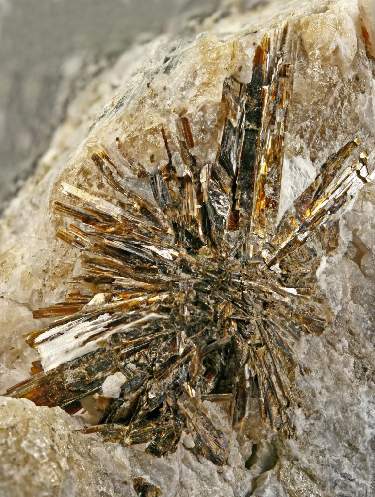 Astrophyllite Locality: Poudrette quarry (Demix quarry; Uni-Mix quarry; Desourdy quarry; Carrière Mont Saint-Hilaire), Mont Saint-Hilaire, Rouville RCM, Montérégie, Québec, Canada Astrophyllite "sunburst" is ~ 3.4 cm top to bottom. Found late 1990s. MOB coll. Not analyzed. But by the "rules of thumb" for MSH (only!) developed by Paula Piilonen (Canadian Museum of Nature) this is very likely astrophyllite.